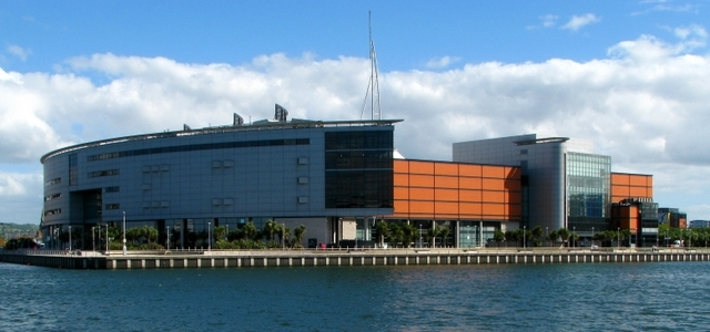 Odyssey Arena, Belfast. Another view (in better light than 640966) of the huge entertainment complex at Queen's Quay in Belfast.